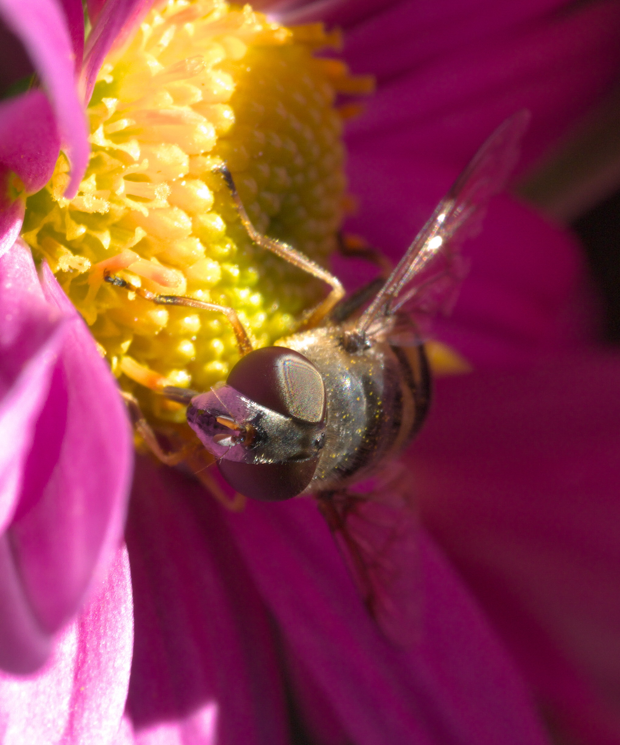 Eristalis transversa, Transverse Flower Fly, ID Confidence: 75